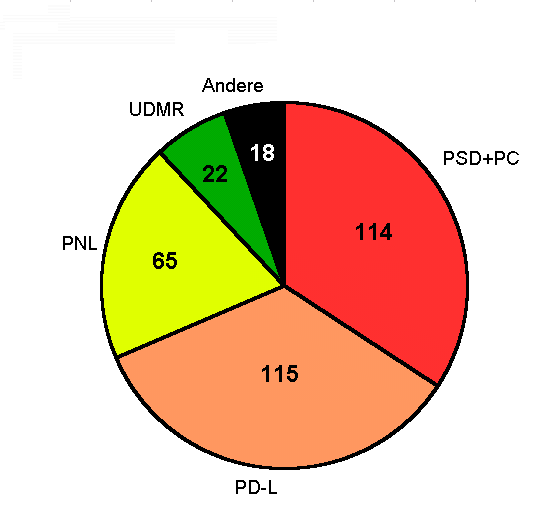 Results of parliamentary elections in Romania 2008-11-30 Seats Chamber of Deputies